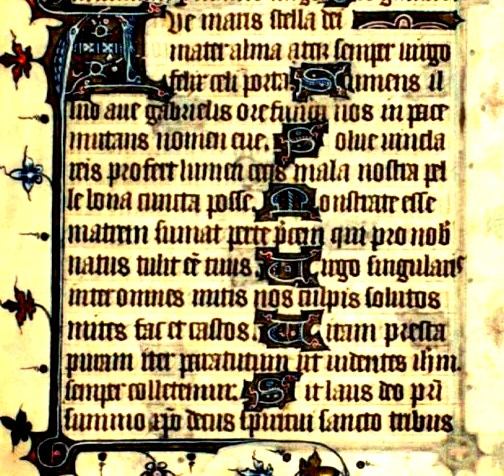 Ave maris stella, from Copenhagen MS Thott. 547 4°